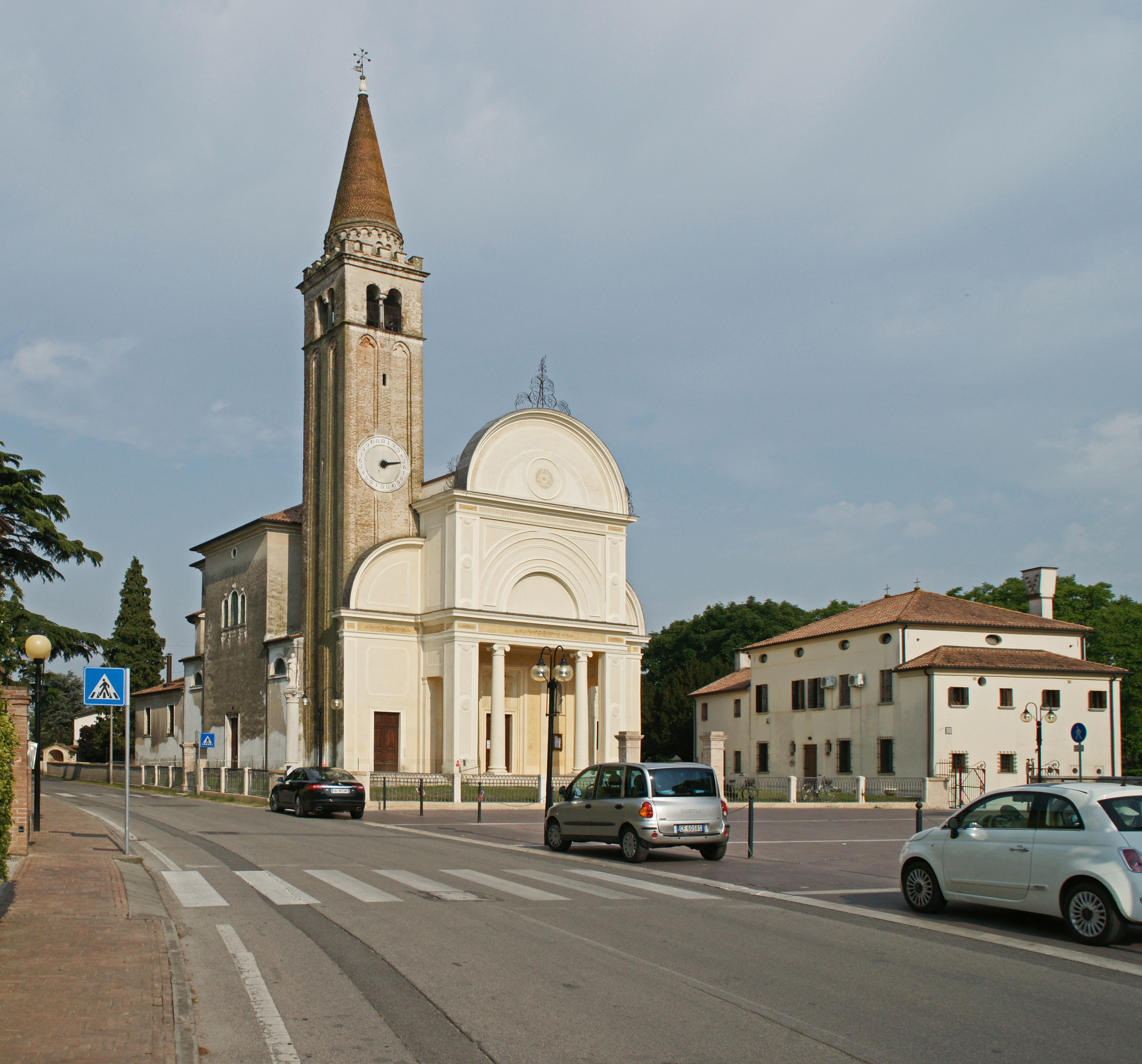 Churche Santa Elena, from Zerman, Veneto, Italy. Architect : Giuseppe Segusini